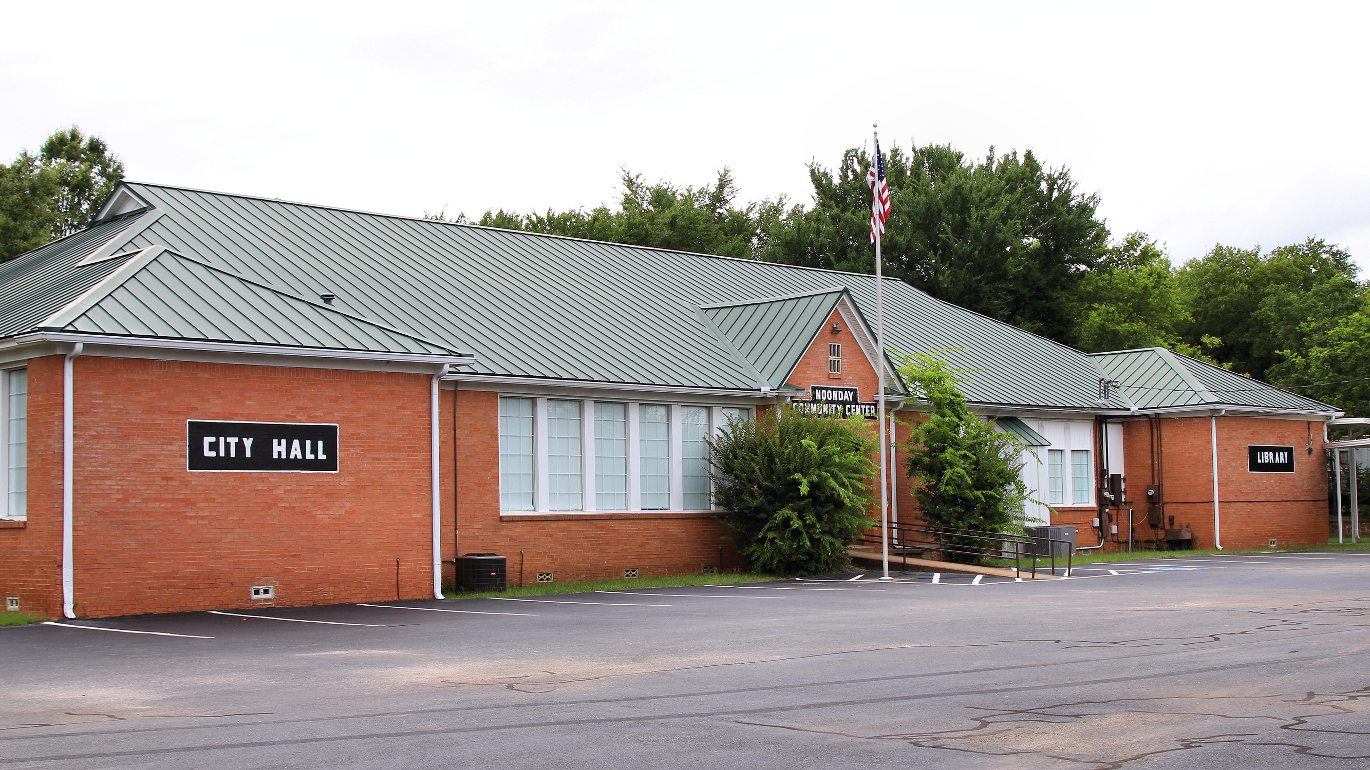 The Noonday, Texas Community Center was a school built circa 1938 by the Works Progress Administration.